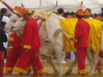 Two royal oxen in Royal Ploughing Ceremony at Sanam Luang, Bangkok, 11 May 2009.